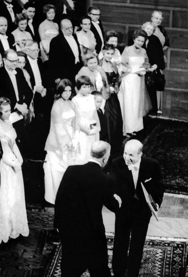 Dr. Melvin Calvin receiving the Nobel Prize at the Stockholm concert hall, 1961.